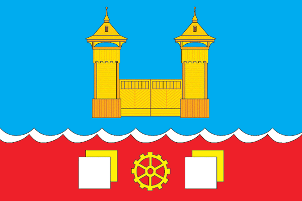 Flag of Ussolie-Sibirskoye, Irkutsk Oblast, Russia